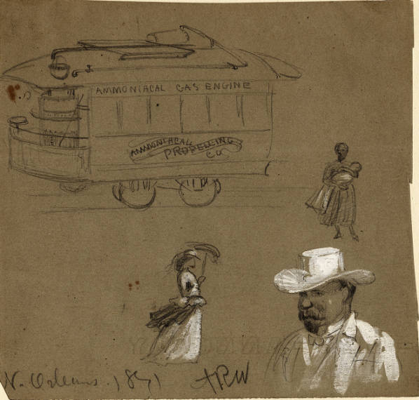 New Orleans, 1871: "Ammoniacal Gas Engine" propelled streetcar, sketch by A. R. Waud, with subsidiary figures of woman holding baby, woman with parasol, and man wearing a hat.